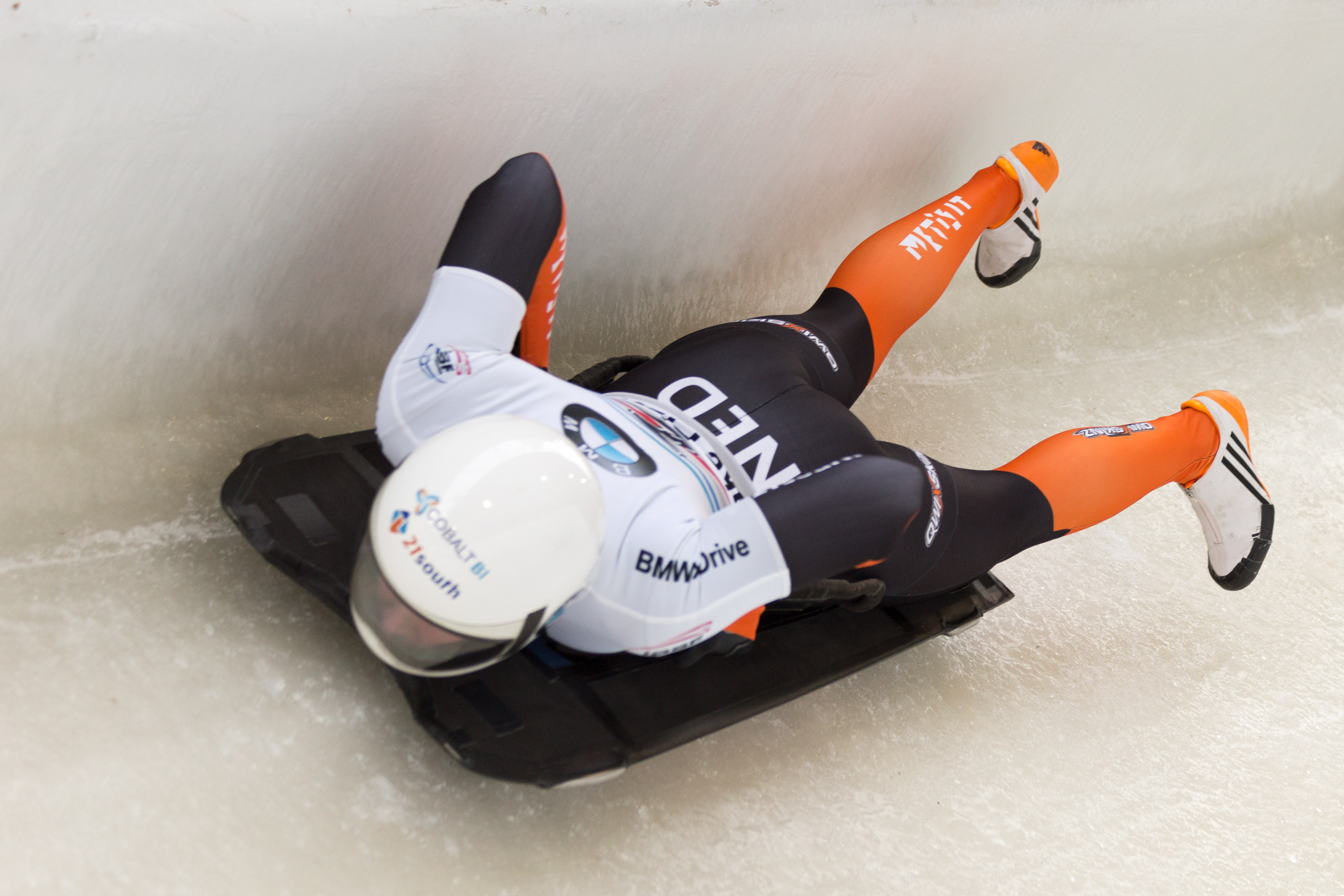 Kimberley Bos (NED) slides into the finish for her first run in the IBSF Skeleton World Cup race in Lake Placid. She took 15th place in run 1.